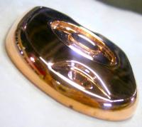 A copper-plated aluminum industrial component